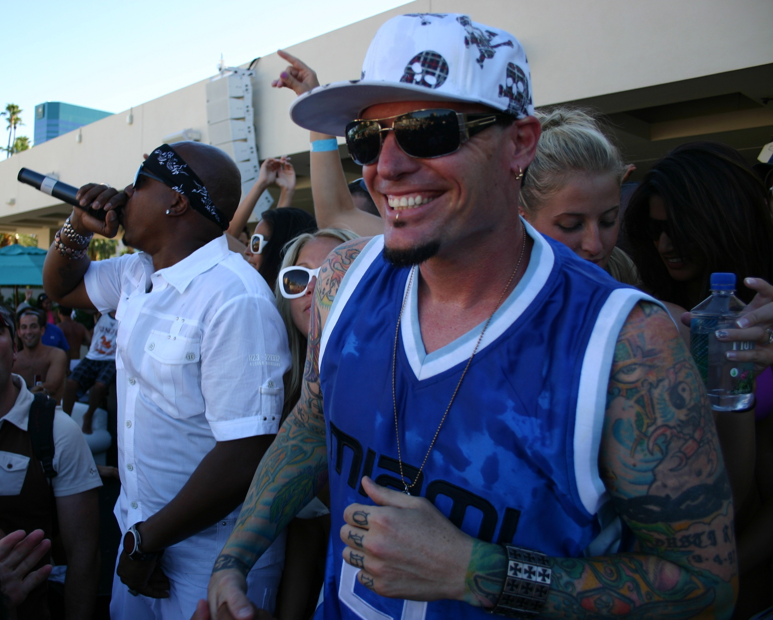 MC Hammer and Vanilla Ice at Wet Republic